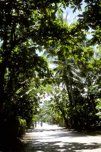 Main street of Funafuti Island, lined by breadfruit and coconut trees.